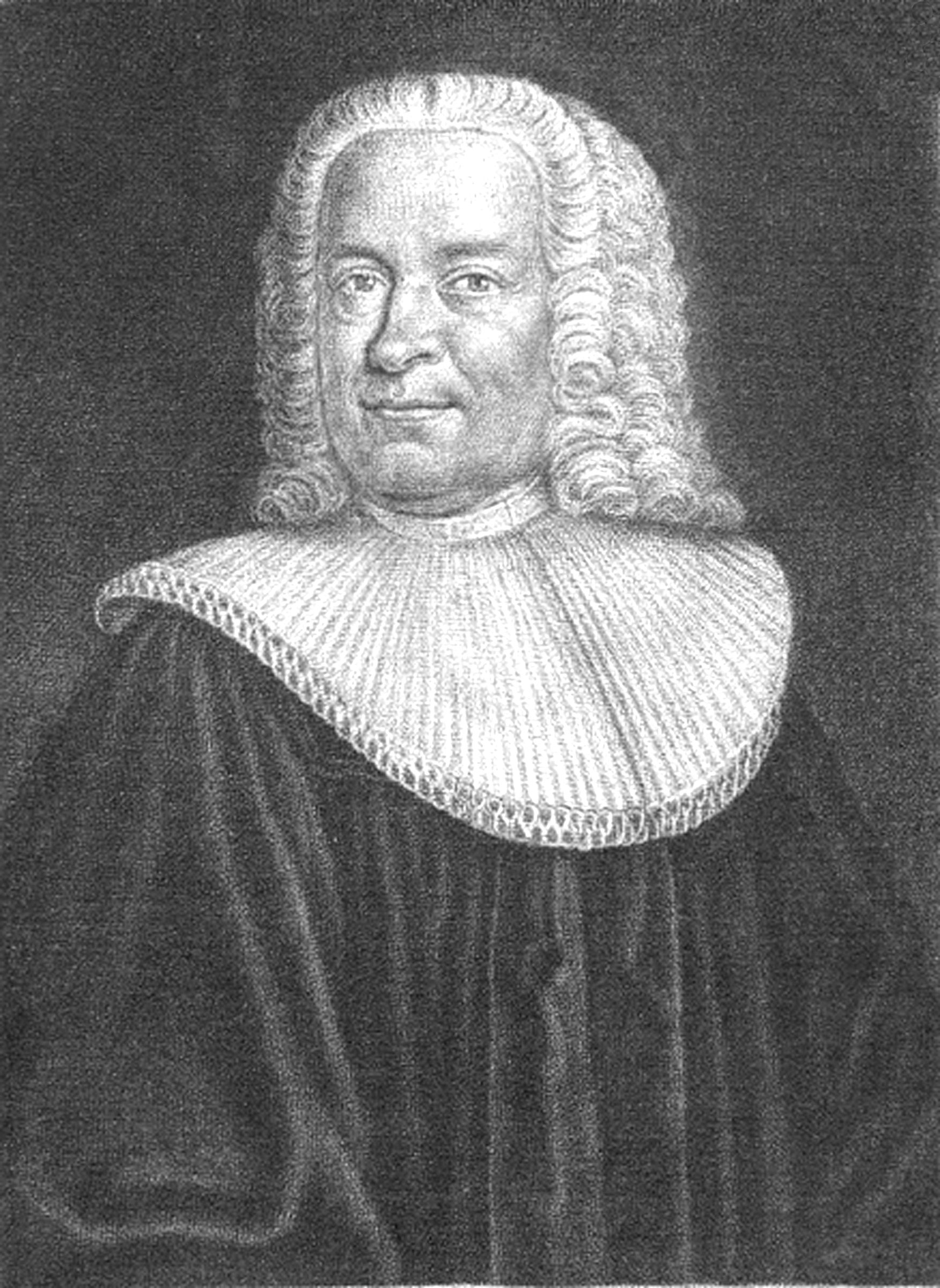 Samuel Urlsperger (1685-1772)Protestant theologian from Germany